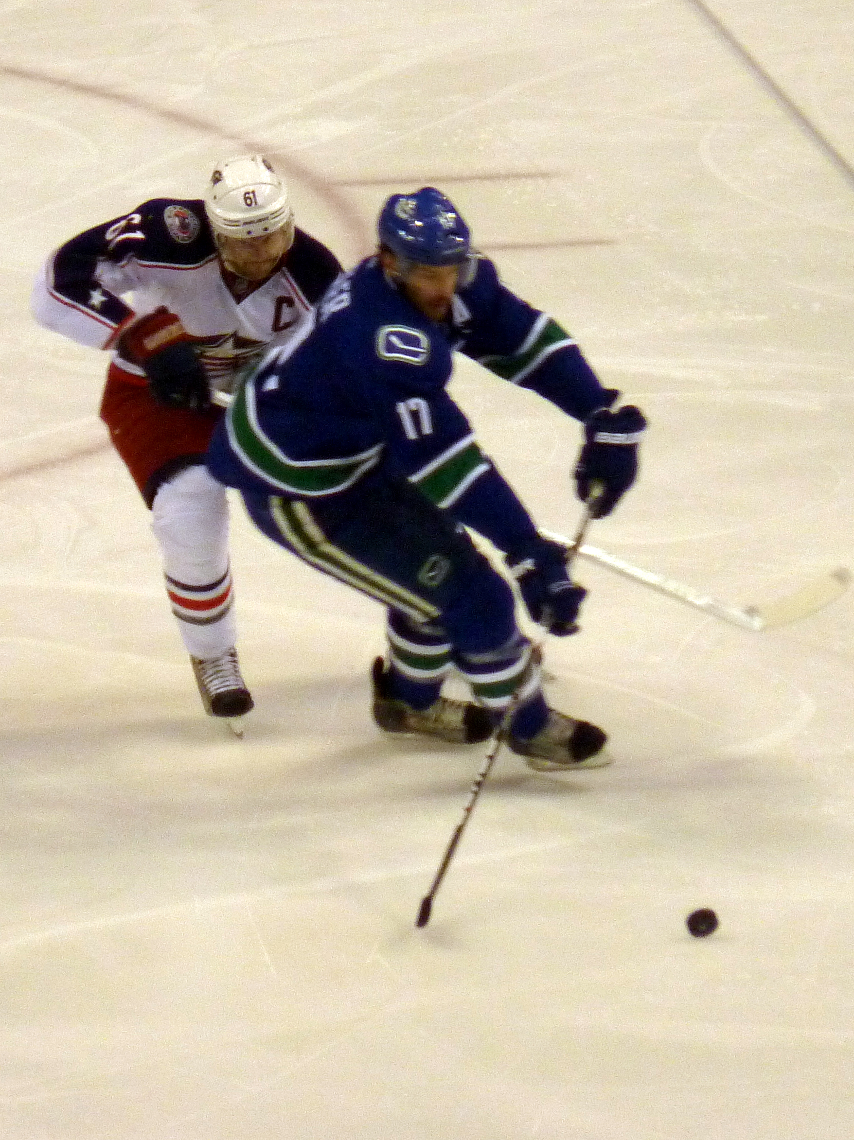 Columbus Blue Jackets forward and captain Rick Nash (left) pursues Vancouver Canucks forward Ryan Kesler (right) during a game on November 29, 2011.